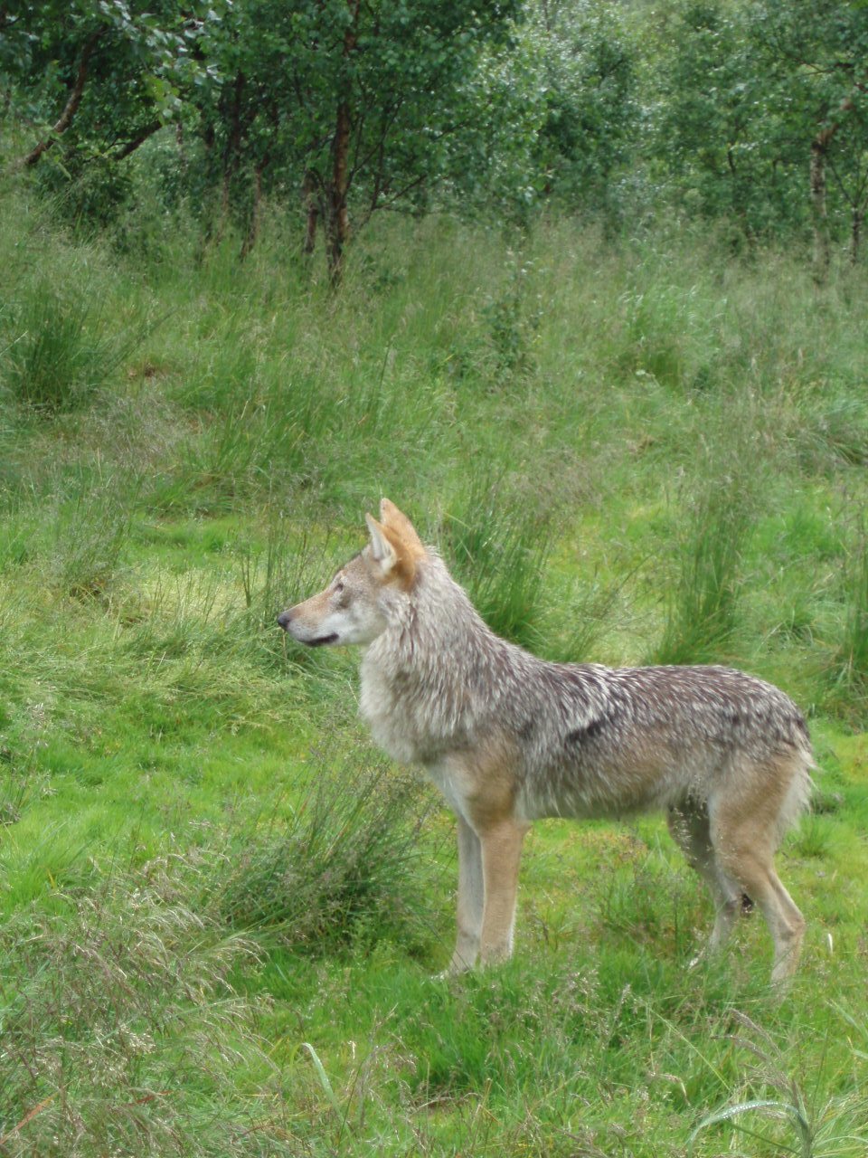 A wolf in Polar Zoo, female, Canis lupus